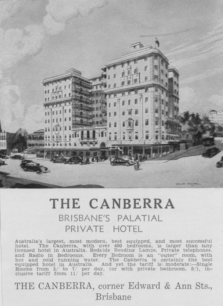 Brisbane city hotel, The Canberra, 1935 Sketch of The Canberra hotel located on the corner of Edward and Ann Street in Brisbane. Proported to be, ' Australia's largest, most modern, best equipped and most successful hotel.' in 1935. (Description supplied with photograph.).